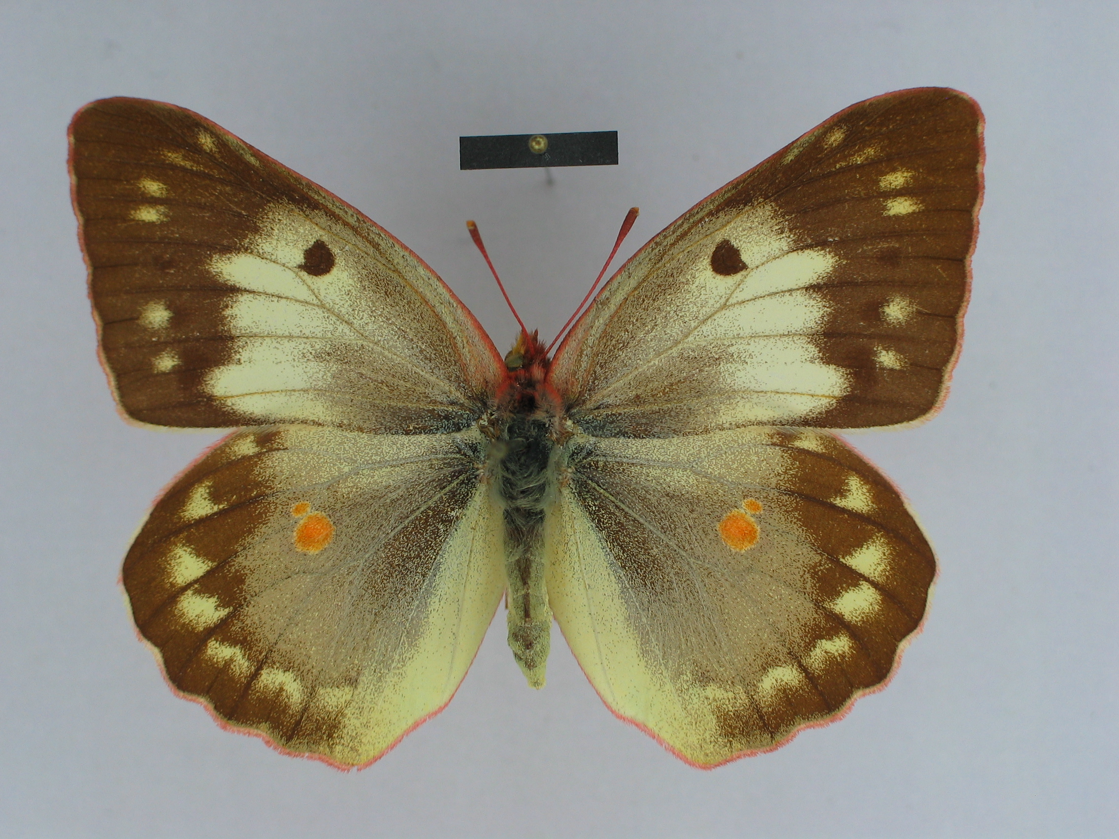 Syntype of the species Colias caucasica olga from the collection of the Zoological Museum of the Zoological Institute of the Russian Academy of Sciences (Berlin); ♀ dorsal side; scalebar=1 cm